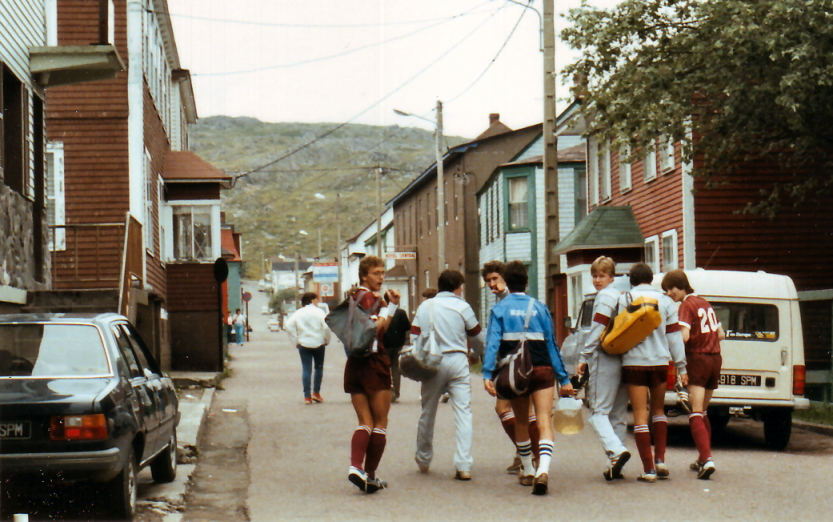 A group of young football players walks in the streets of Saint Pierre, capital of the archipelago of Saint Pierre and Miquelon. Selfmade image. Photo was taken in August, 1984.